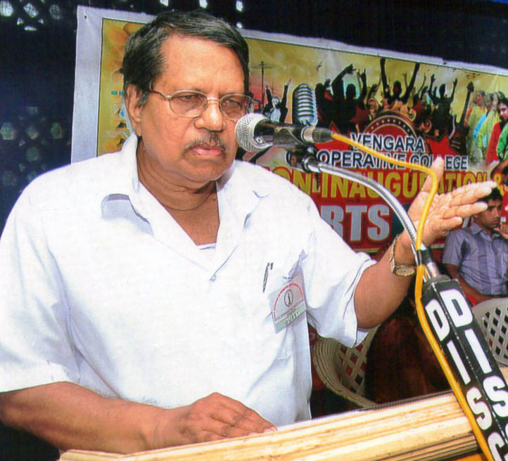 Novelist Sukumar Kakkad